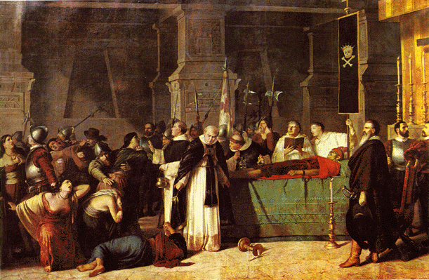 Funeral of Atahualpa